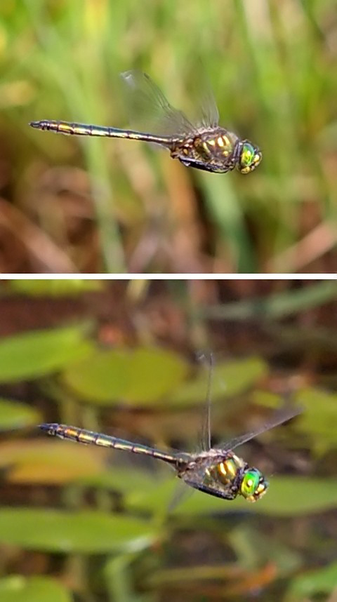 Old male specimen of the dragonfly Somatochlora metallica. Note: The species can easily be confused with Cordulia aenae, but that one lacks the yellow spot in front of the eye!